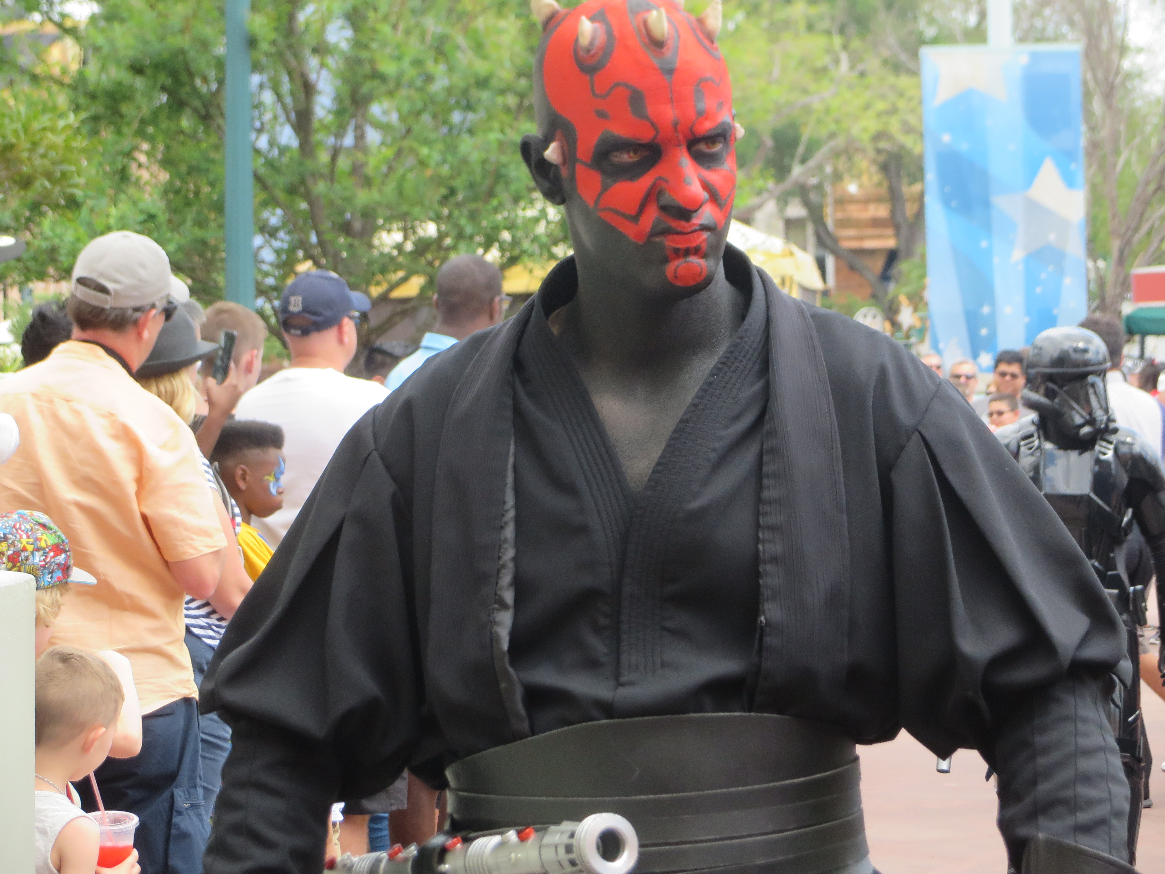 Darth Maul after Star Wars: A Galaxy Far, Far Away.